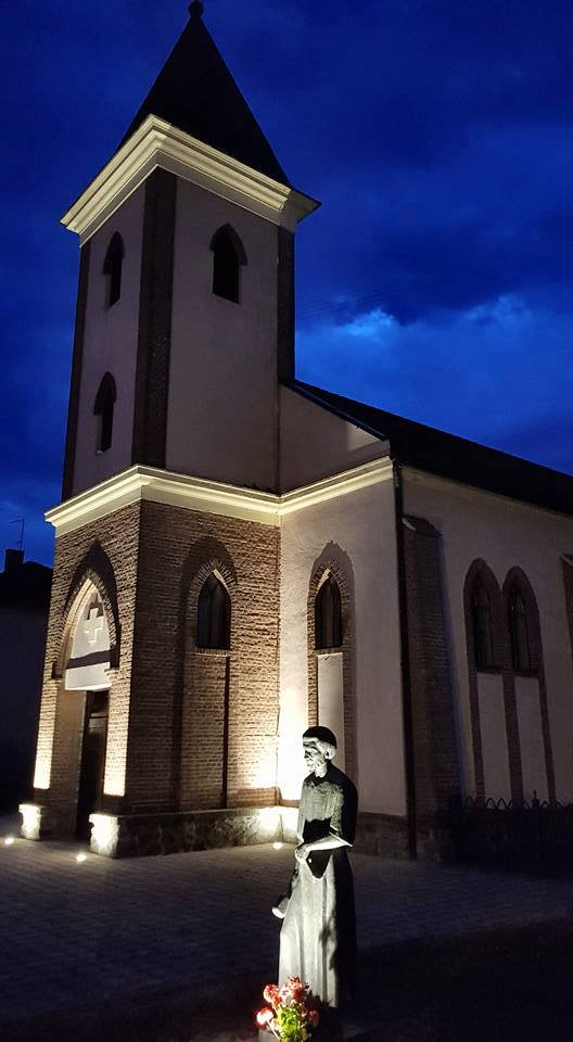 Catholic Church in Durdenovac, Croatia.